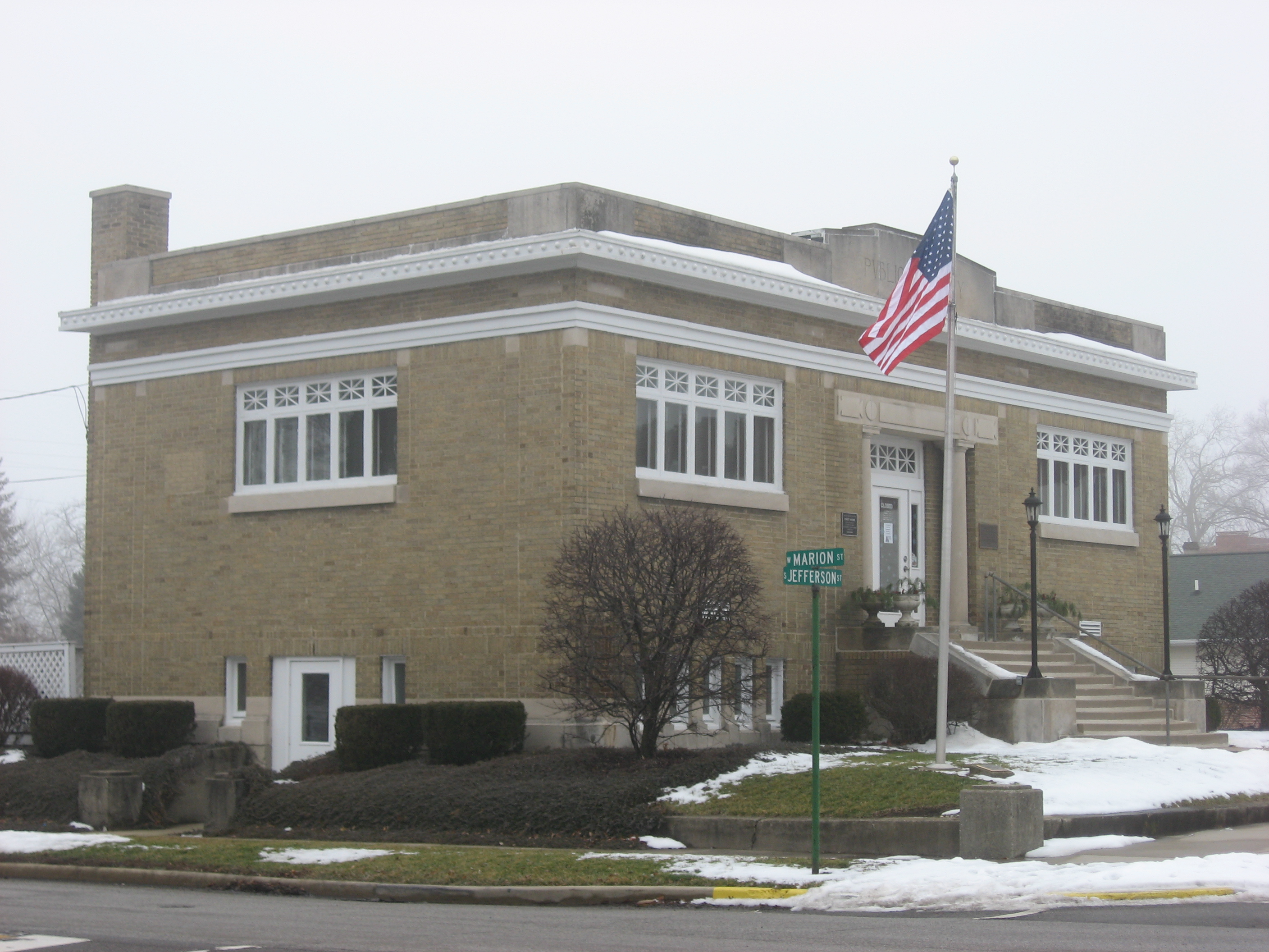 Front and southern side of the Converse-Jackson Township Public Library, a Carnegie library located at the intersection of Marion and Jefferson Streets on the Miami County side of Converse, Indiana, United States. Built in 1918, it is listed on the National Register of Historic Places.